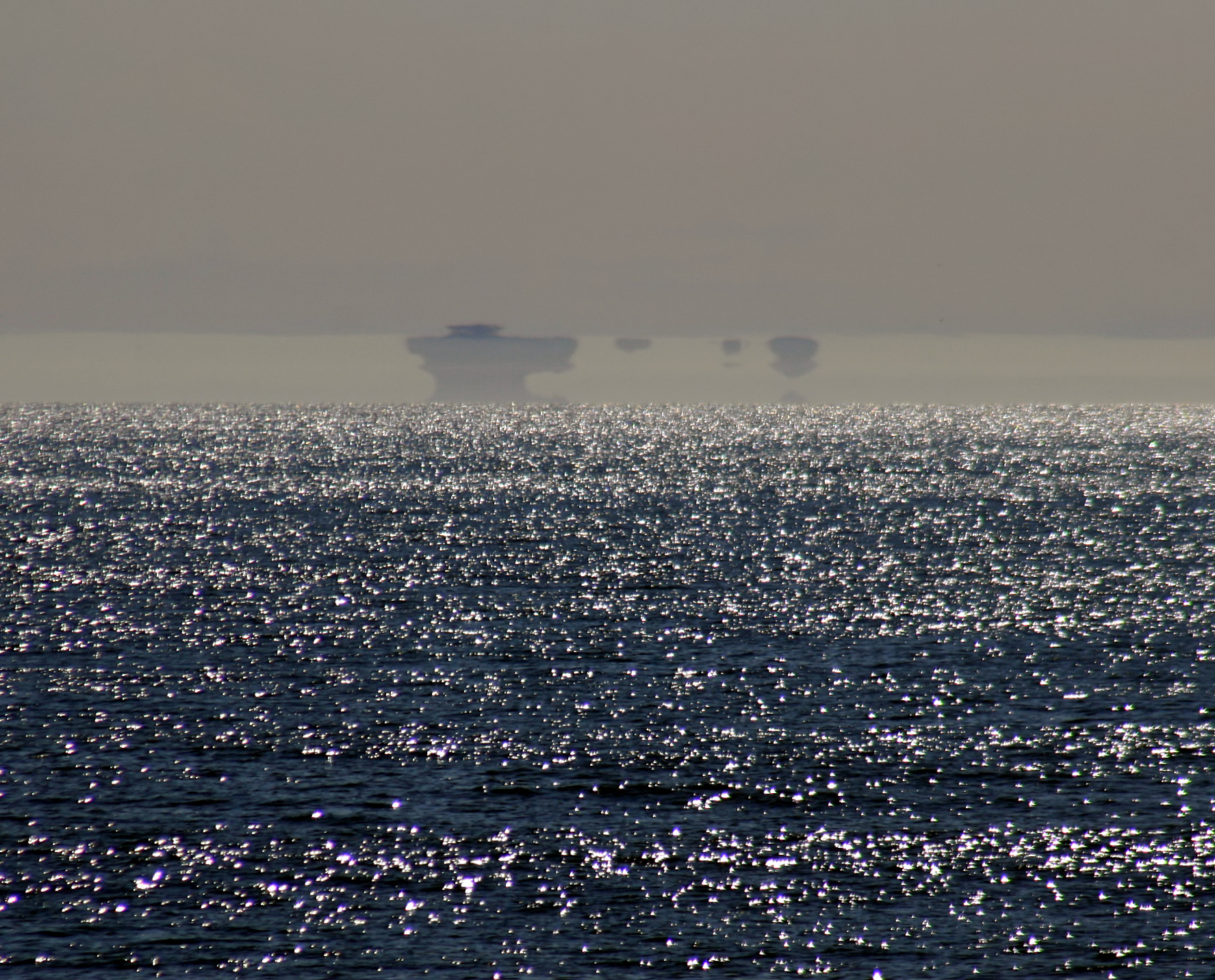 Superior Mirage of a distant land as seen from San Francisco.